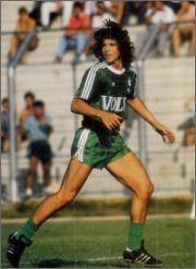 Daniel Brailovski דניאל בריאלובסקי